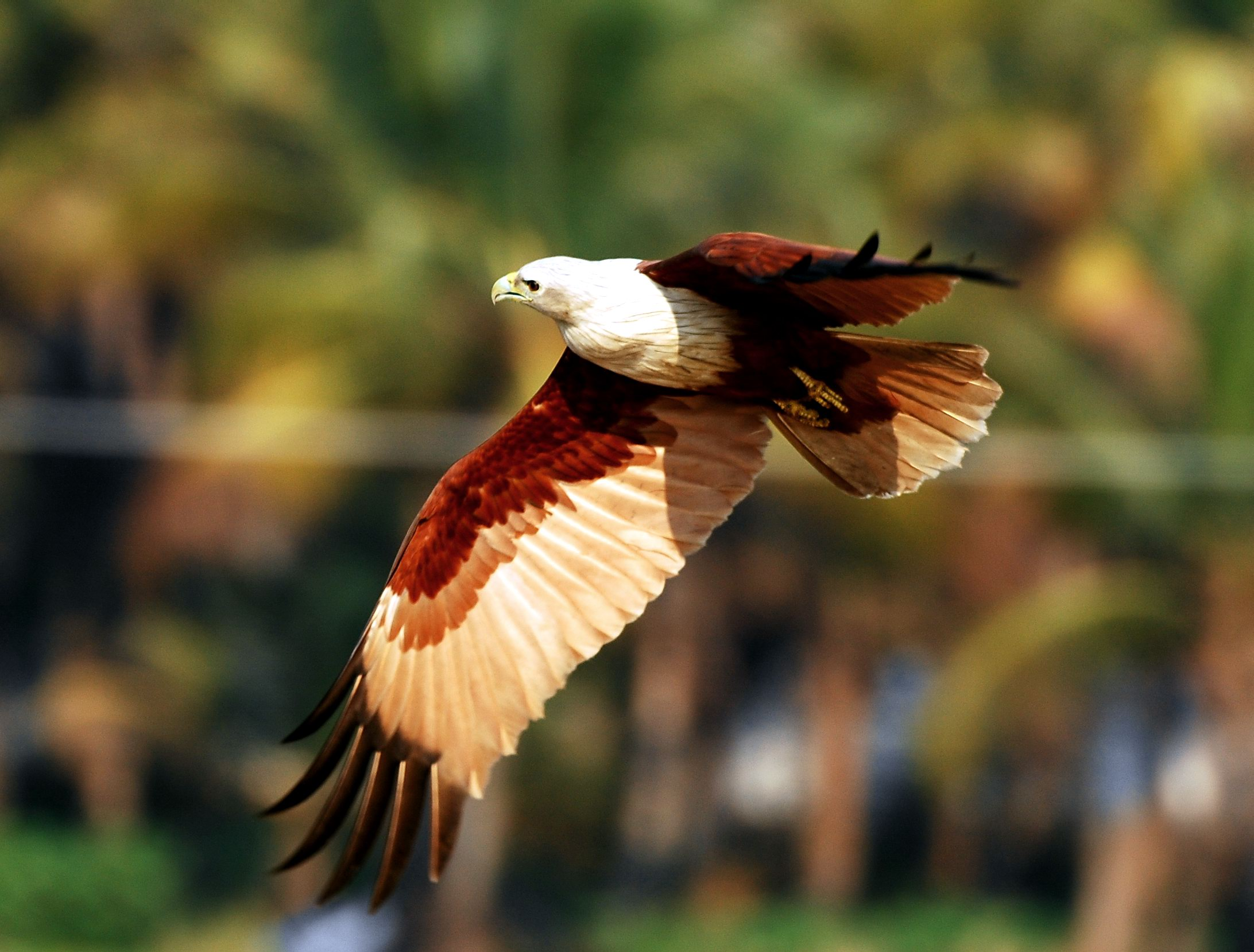 In flight the rounded tail and plumage of adults is distinctive.